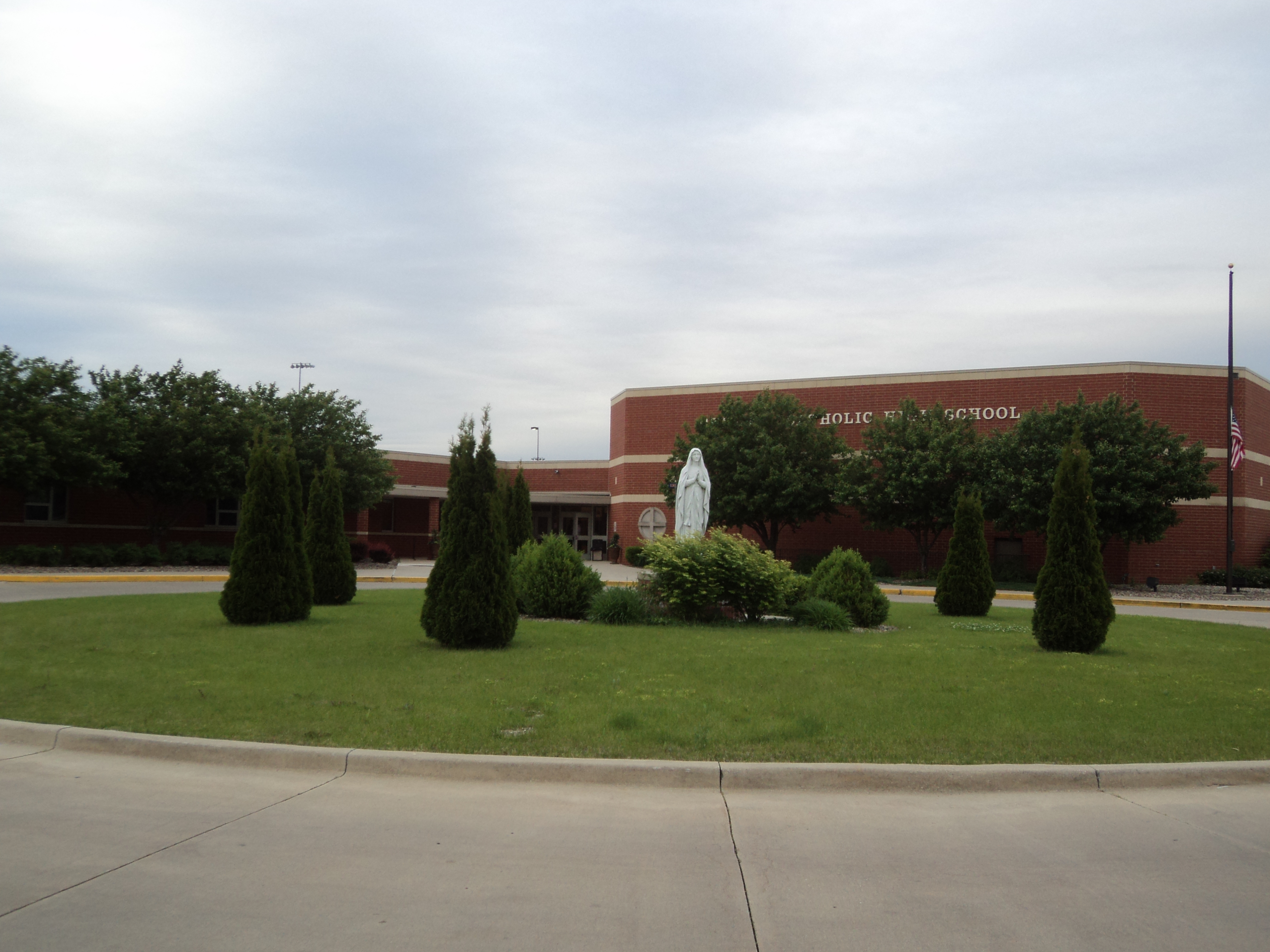 Central Catholic High School roundabout entrance, Bloomington Illinois